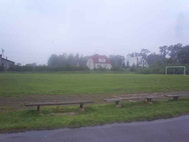 Stadium in Chrośnica